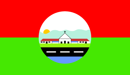 Flag of the Alto Orinoco Municipality, Amazonas State, Venezuela.